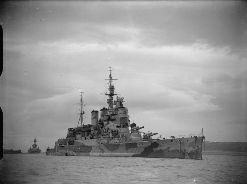 The Royal Navy during the Second World War HMS RENOWN at anchor in Hvalfjord, Iceland (Photograph taken from the aircraft carrier HMS VICTORIOUS) during the search for the TIRPITZ. The battleship aft of RENOWN is possibly USS TEXAS, which arrived in Iceland in late January to escort a convoy back to British waters.